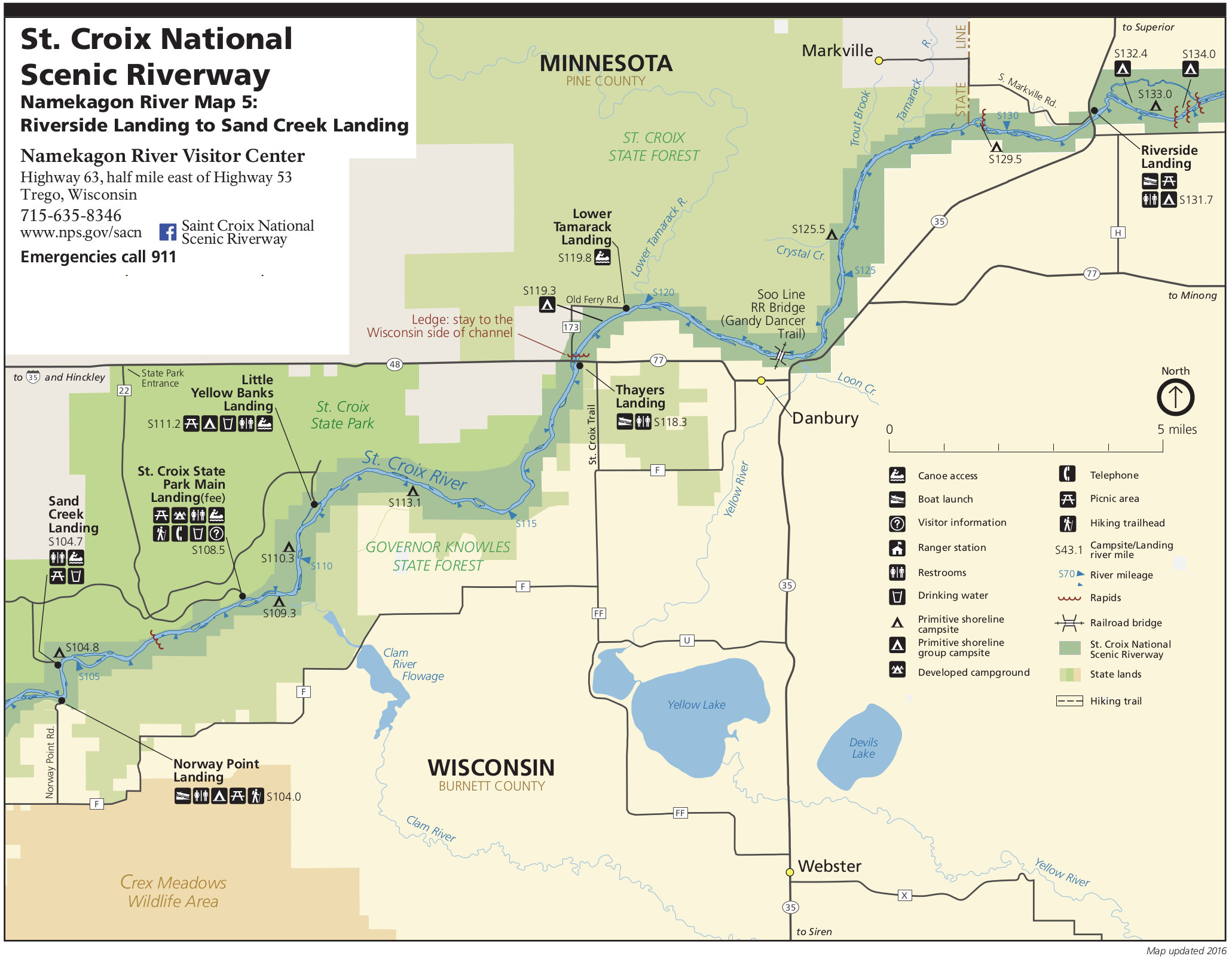 Map 5: Now we’re below the confluence! This map of Riverside Landing to Sand Creek Landing shows the Saint Croix River downstream of the confluence, adjacent to both Minnesota and Wisconsin.